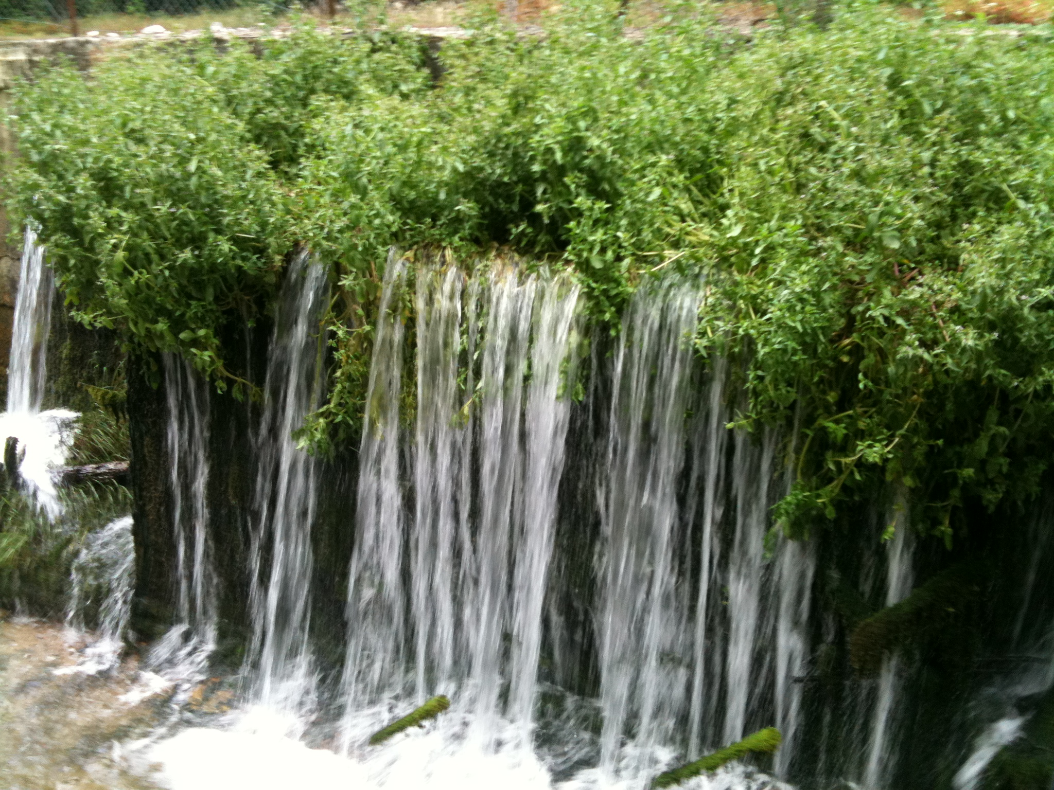 A small waterfall, formed as the river Ladopotamos reaches the village of Koromilia, near Kastoria, in Western Macedonia perfecture, Greece